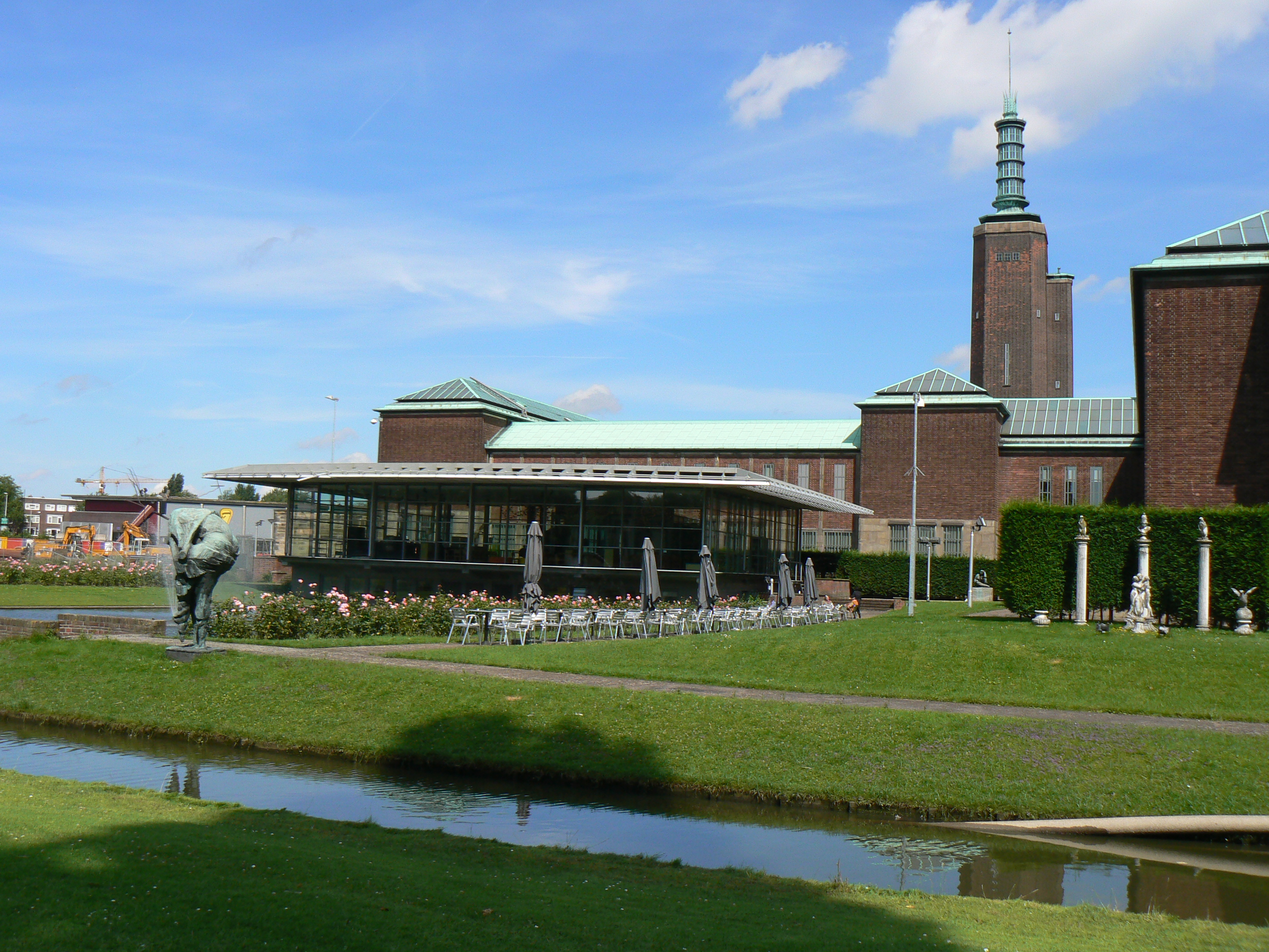 Part of Museum Bijmans Van Beuningen, Rotterdam